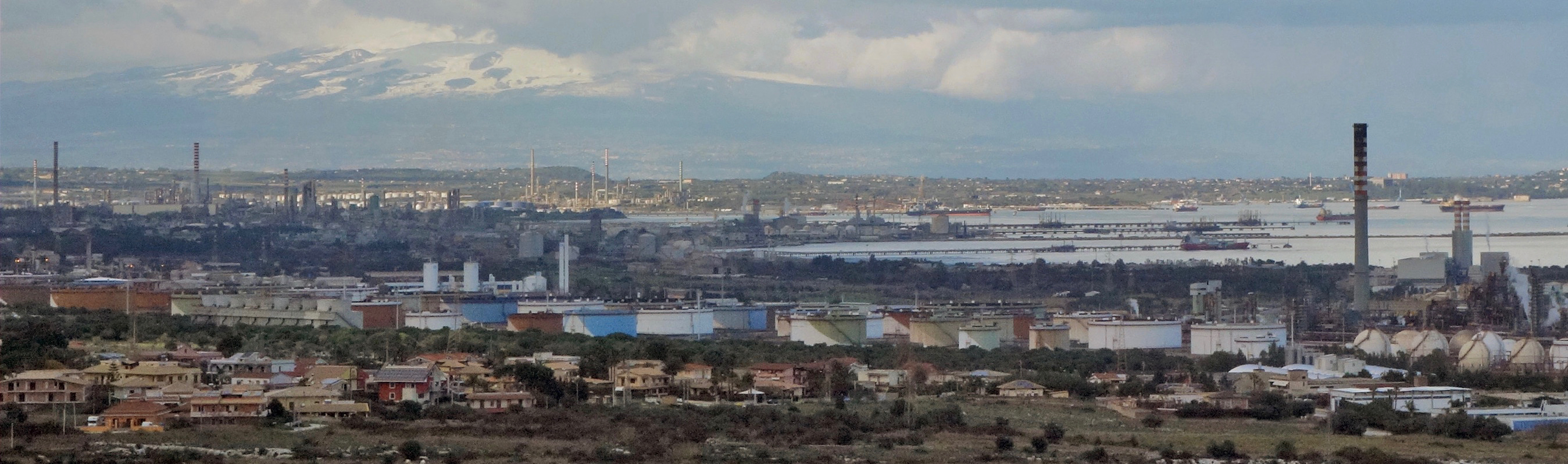 The industrial complex of Augusta-Priolo in Sicily, Italy. View from Castello Eurialo to the north, vulcano Etna in the background.